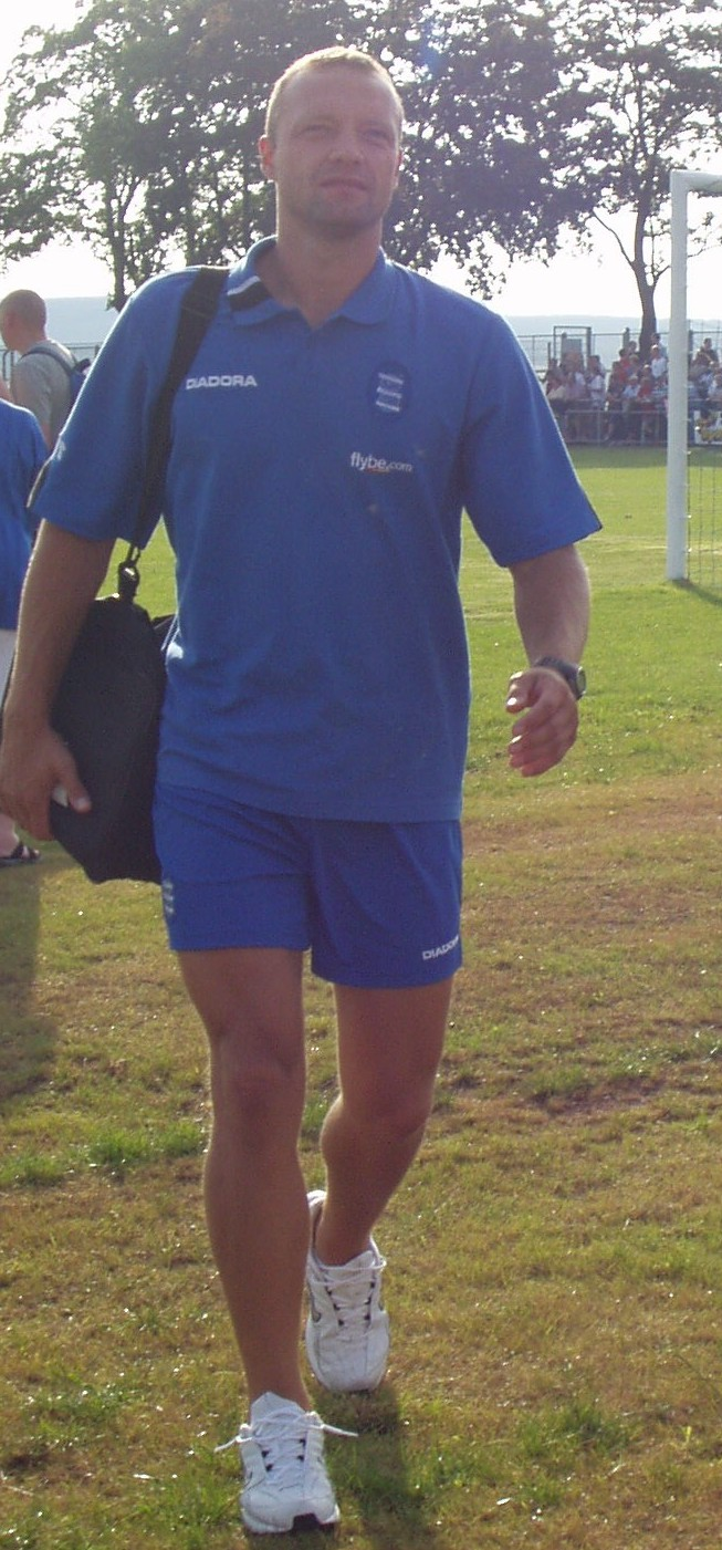 Northern Ireland international football (soccer) goalkeeper Maik Taylor (Birmingham City F.C.) photographed before pre-season friendly match VfB Poessneck (Germany) v Birmingham City FC